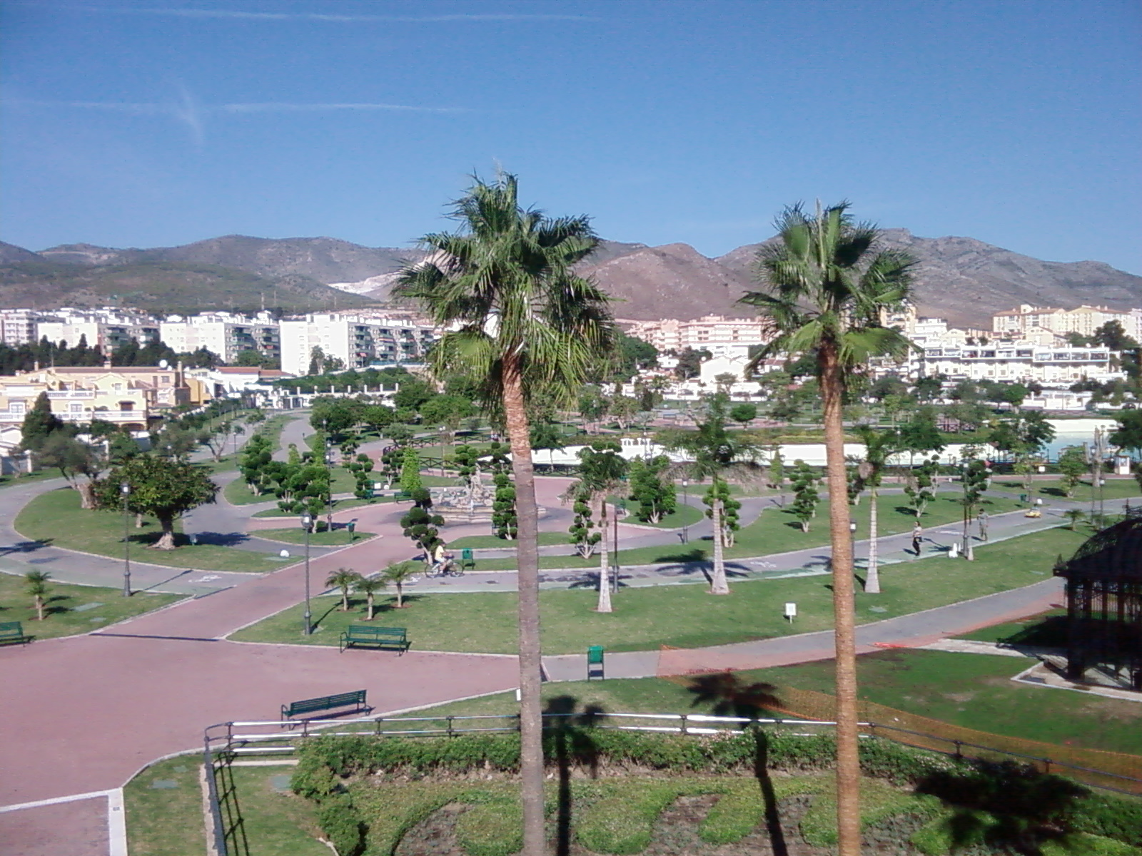 "La Batería" Park, Torremolinos, Costa del Sol, Andalusia, Spain.